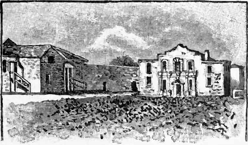 Drawing of the Alamo.